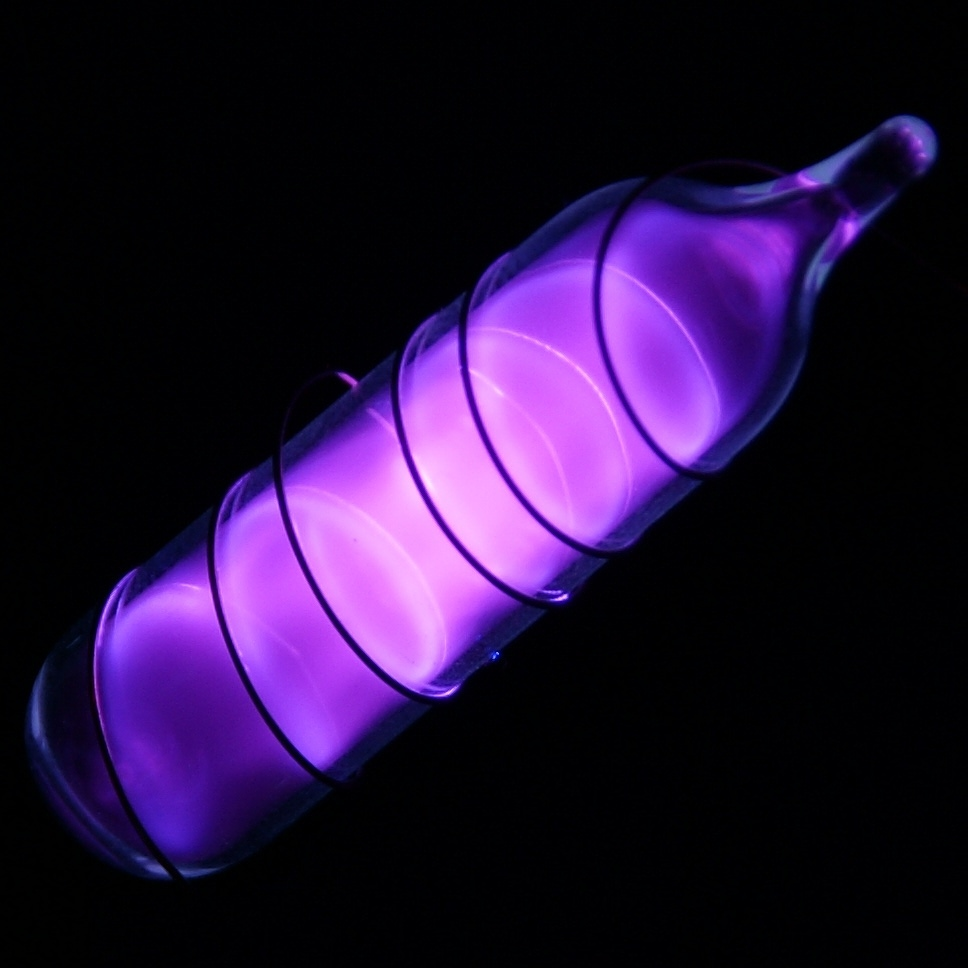 Vial of glowing ultrapure argon. Original size in cm: 1 x 5